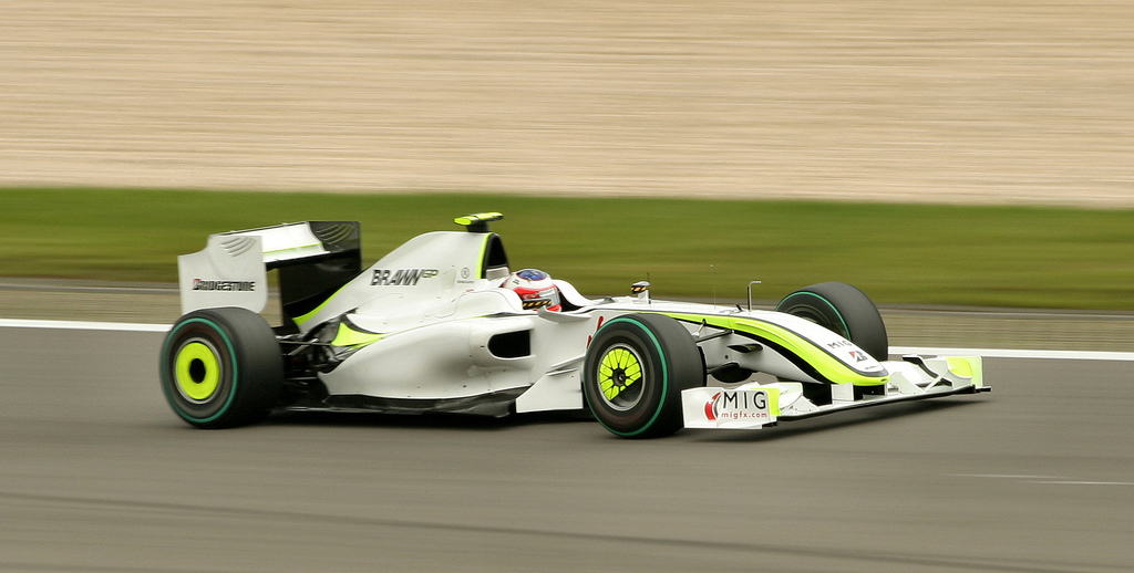 Rubens Barrichello driving for Brawn GP at the 2009 German Grand Prix.